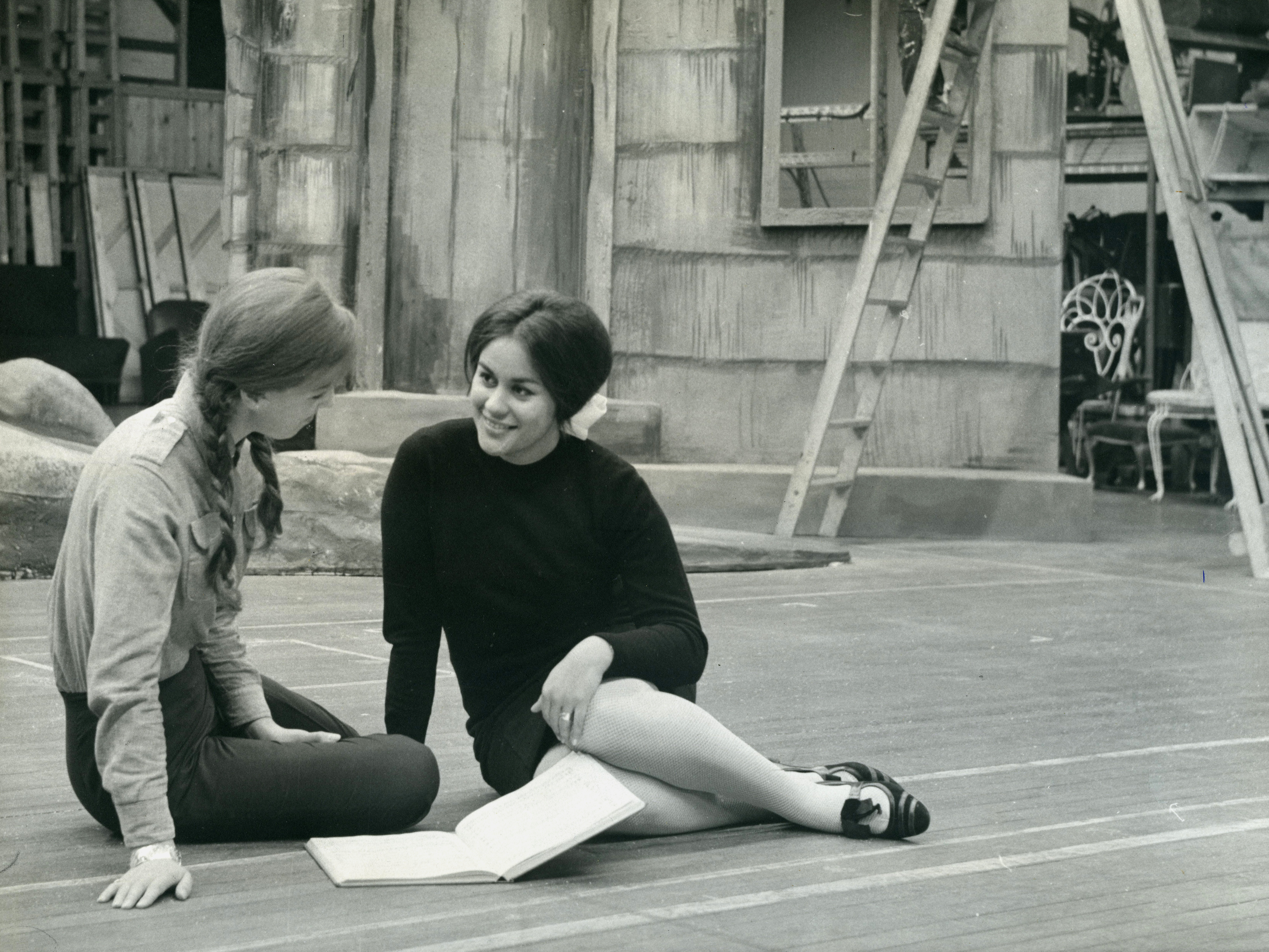 Born on 6 March, 1944, Kiri Te Kanawa, now Dame Kiri Te Kanawa, is a highly regarded operatic performer. The songstress is well known internationally, and even performed at the 1981 royal wedding of Prince Charles and Lady Diana Spencer. Te Kanawa is a strong supporter of operatic arts in New Zealand. This undated photograph of Kiri Te Kanawa is from a collection of photographs created by the Broadcasting Corporation of New Zealand.The photographs include a variety of subjects, including: personalities (listed alphabetically), Disasters, Industry, Railways, Ships, Sport, War, etc. Archives reference: ABHJ W3602 Box 6/ 4 Material from Archives New Zealand Te Rua Mahara o Te Kāwanatanga